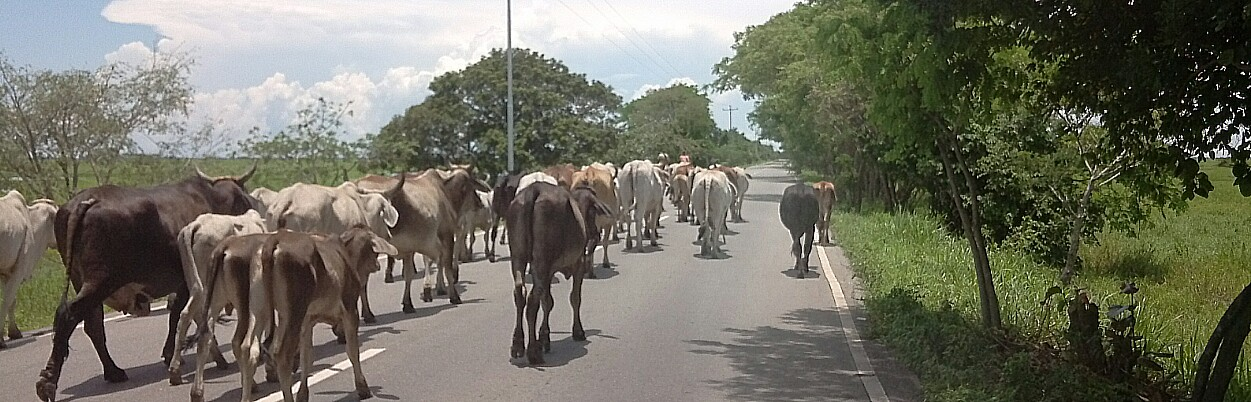 Cattle of Apure state, Venezuela